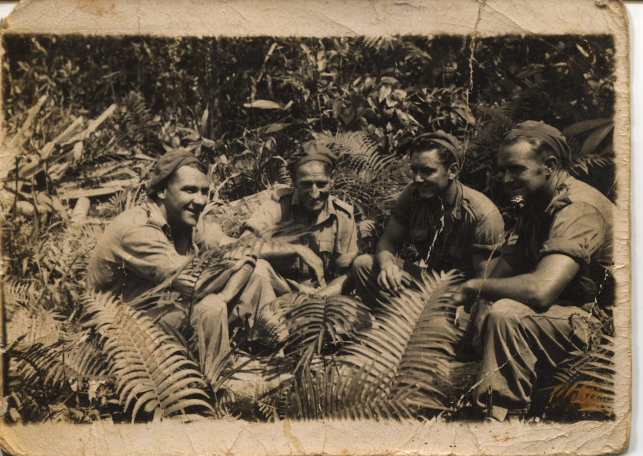 1942 Malaya F.W.Keays and G.Keays WW2